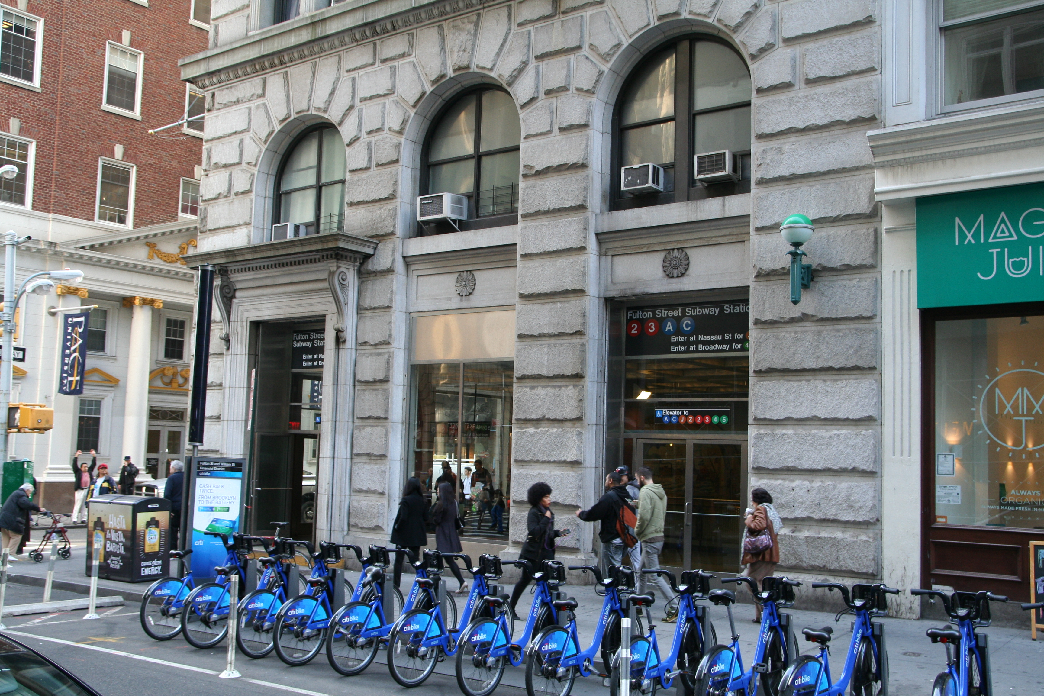 Entrance to Fulton Center through 135 William St with CitiBike station.